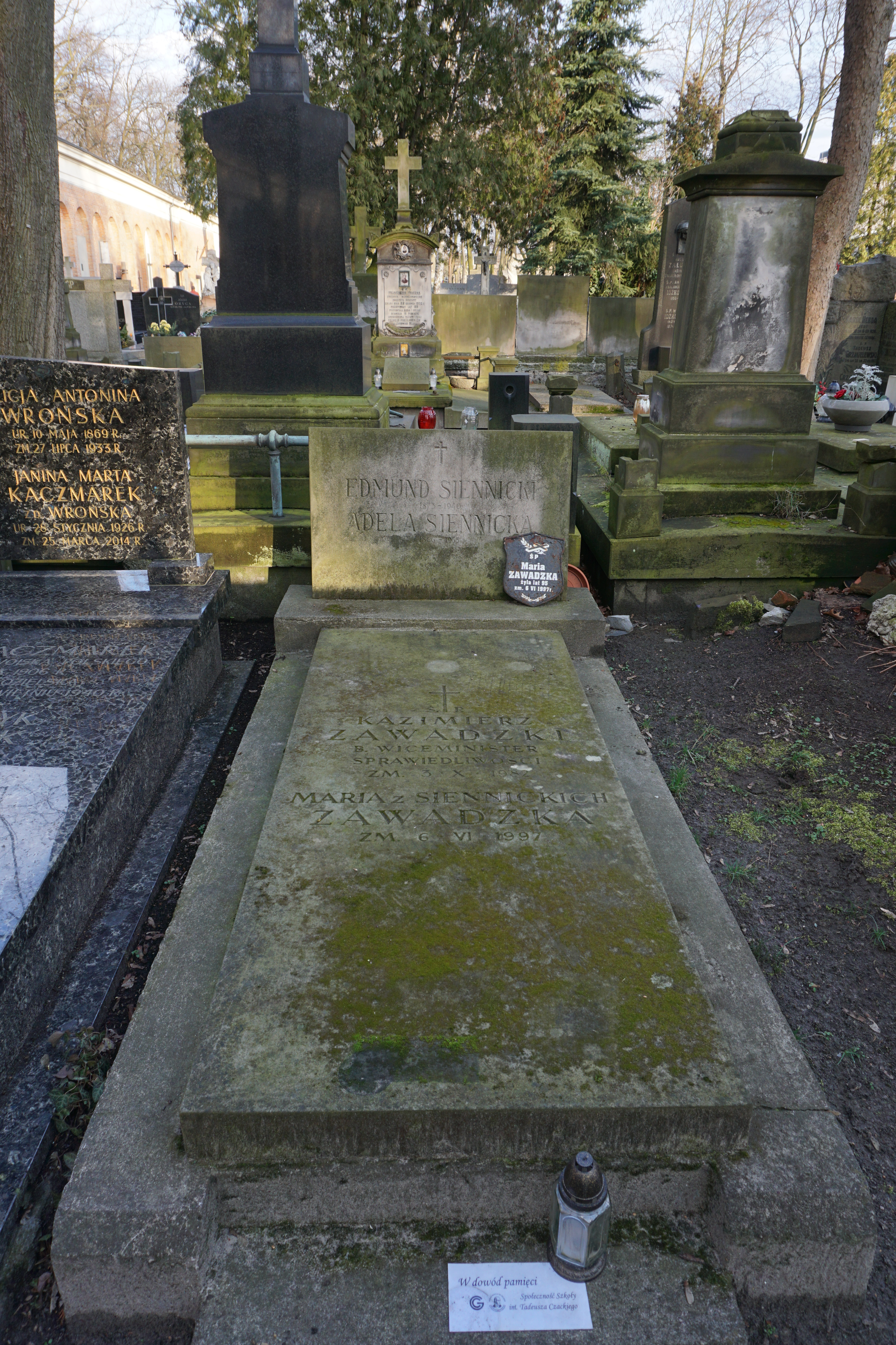 The grave of Kazimierz Zawadzki at the Powązki Cemetery (section 168, row 2, grave 7)